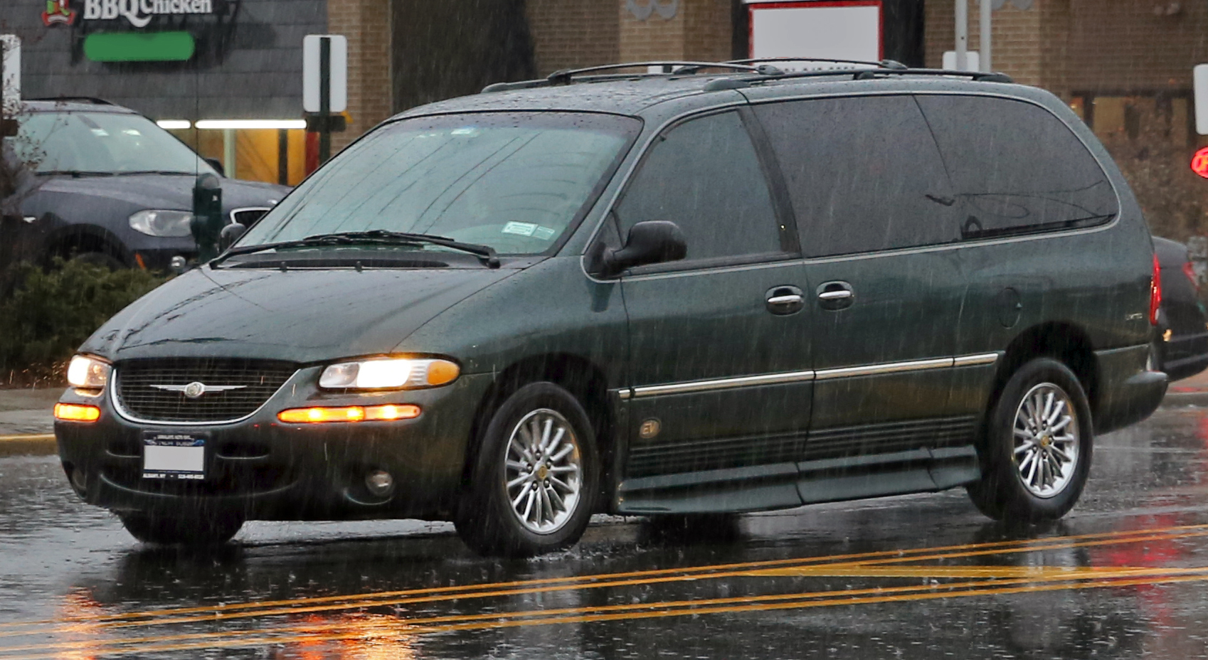 1998-2000 Chrysler Town & Country Limited, BraunAbility EnterVan (hence the little "EV" logo in front of the front door) handicap accessible van, somewhere in New Jersey.